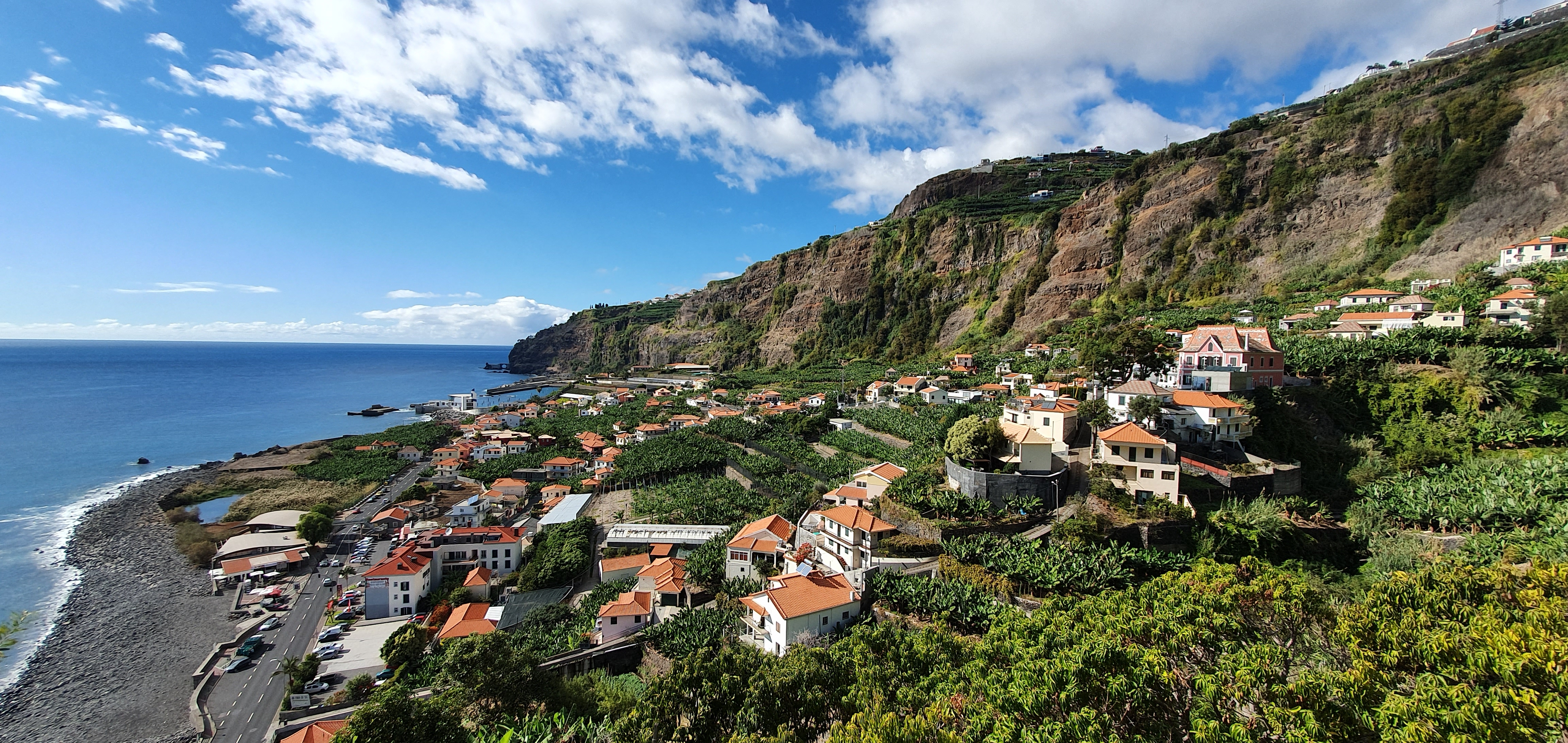 Panoramic photo of the Lugar de Baixo village on the south coast of Madeira, Portugal. Atlantic ocean to the left, rows of banana fields to the right.